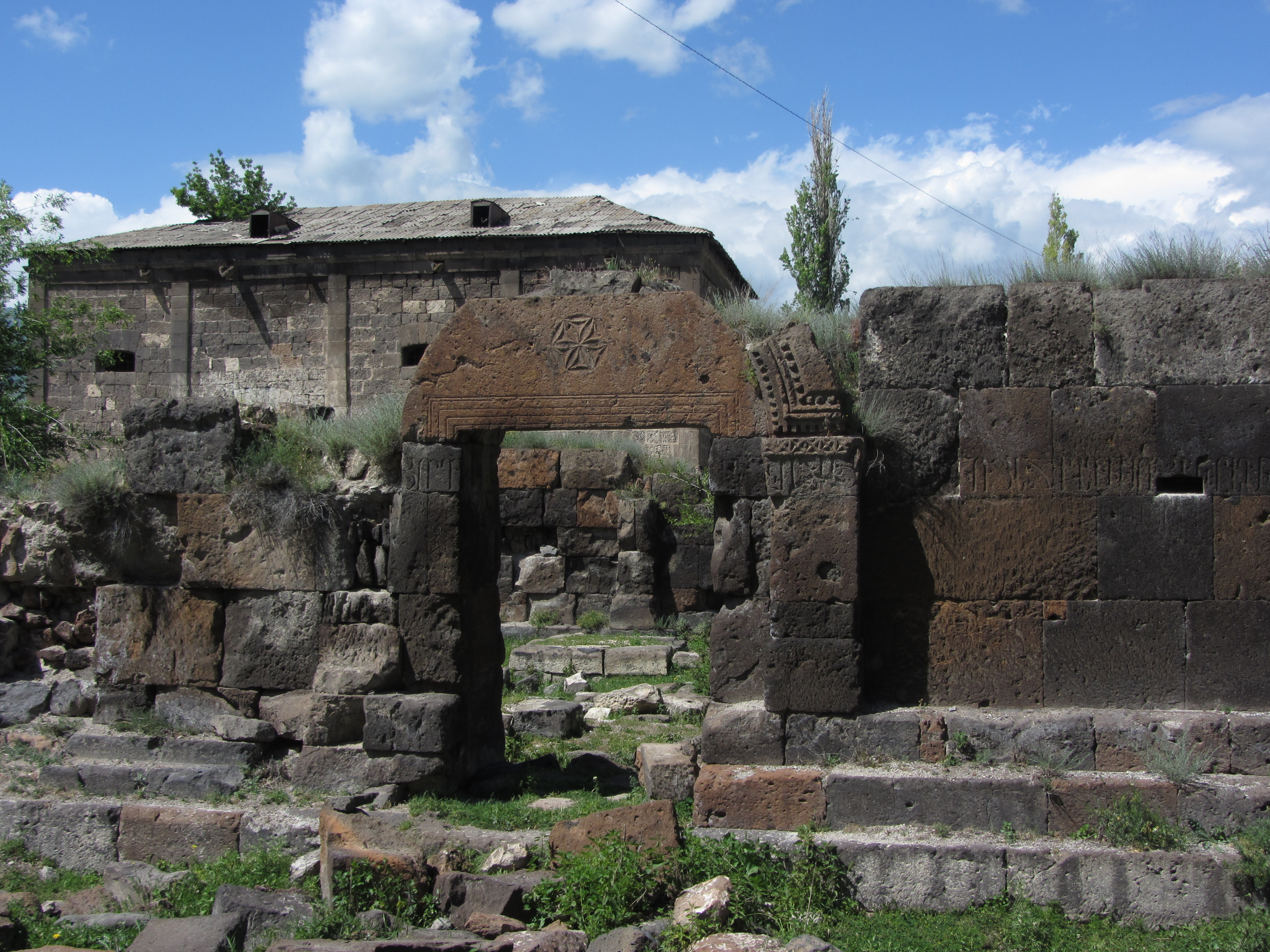 Ruined church 5c., rebuilded at 6-7c., three nave hall